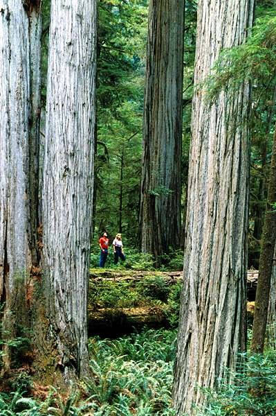 Sequoia sempervirens and visitors in Redwood National Park, California